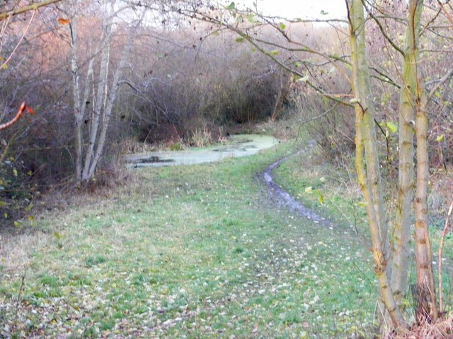 Jinny Nature Trail The result of Rail closure.